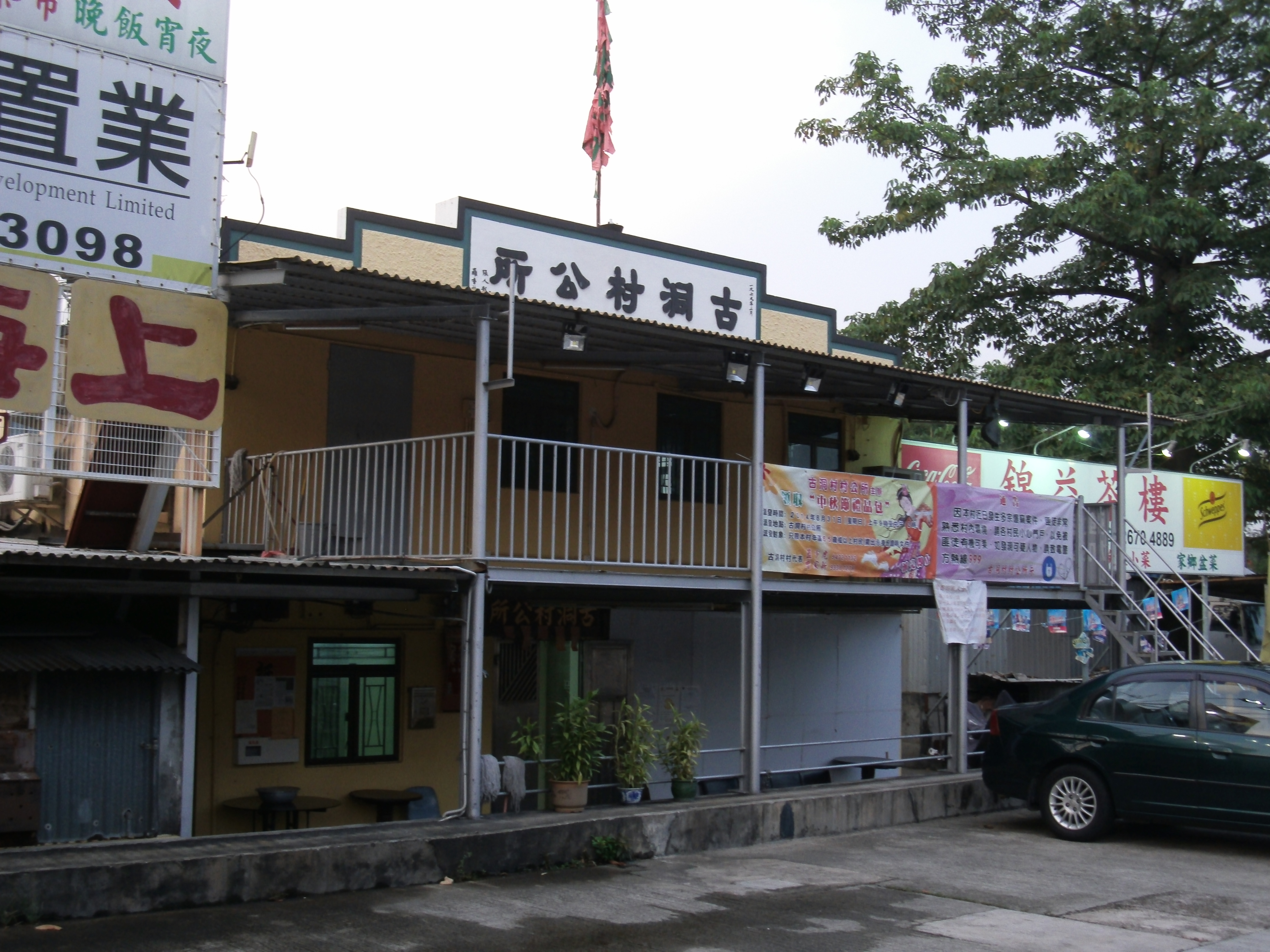 kwu tung village office